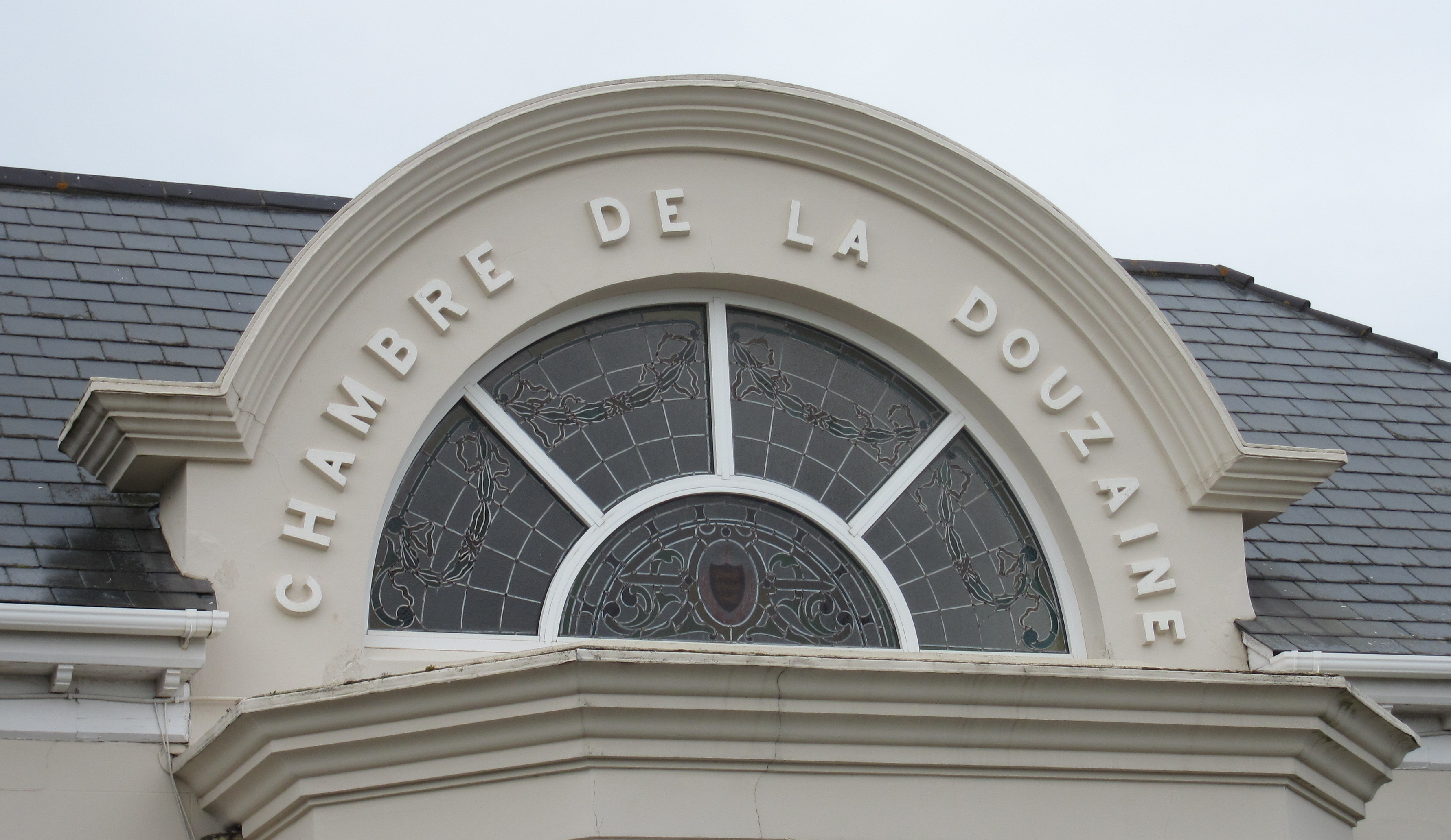 Guernsey, 2 July 2010: Douzaine room